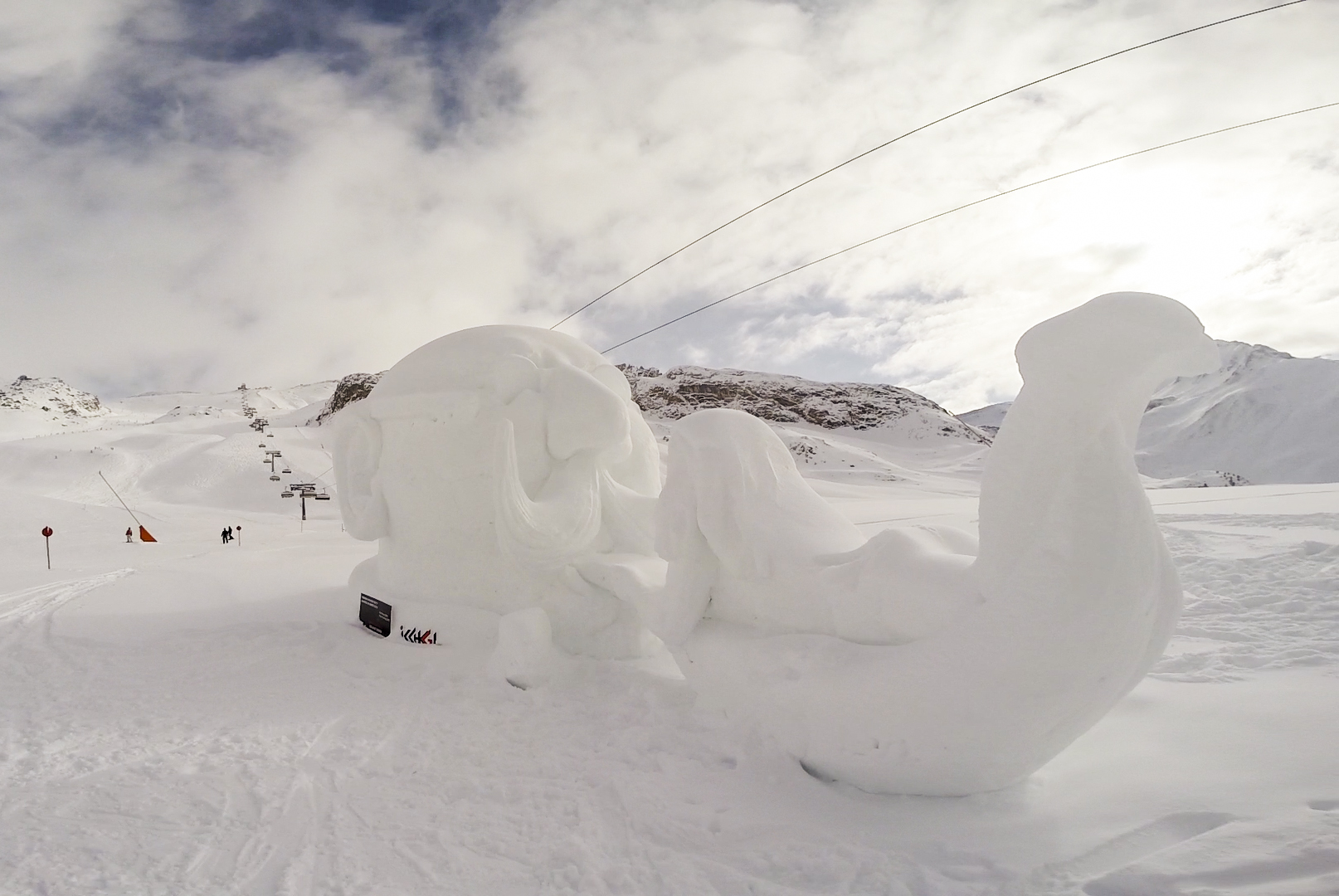 snow sculptor at ischgl ski resort